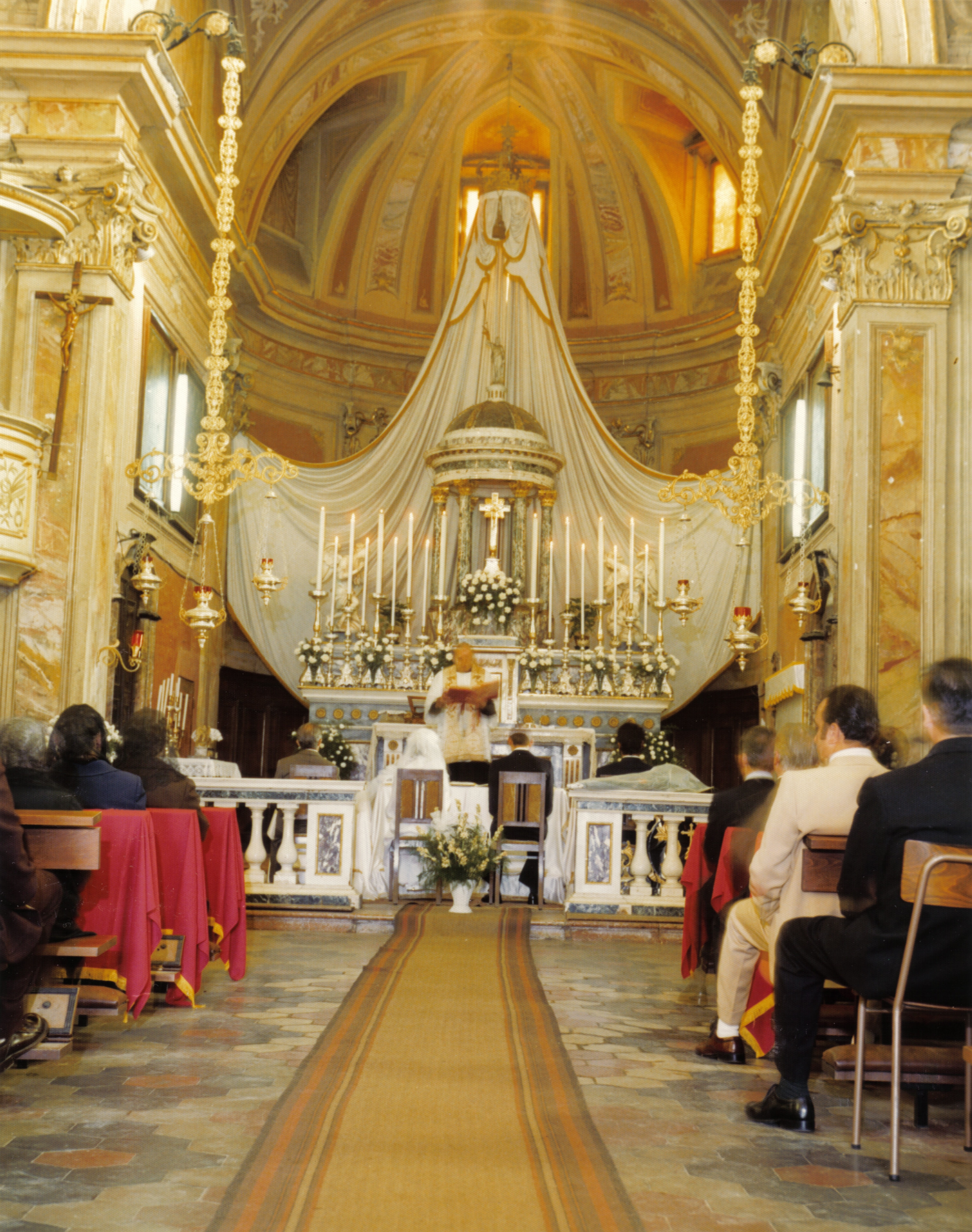 My parents wedding. Inside the "Chiesa dei Santi Marcellino e Pietro" in Imbersago, Italy